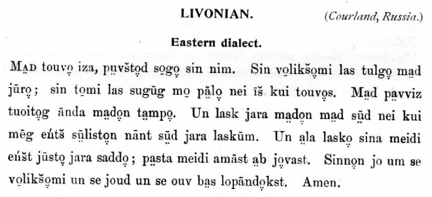 Pater noster prayer in eastern Livonian.